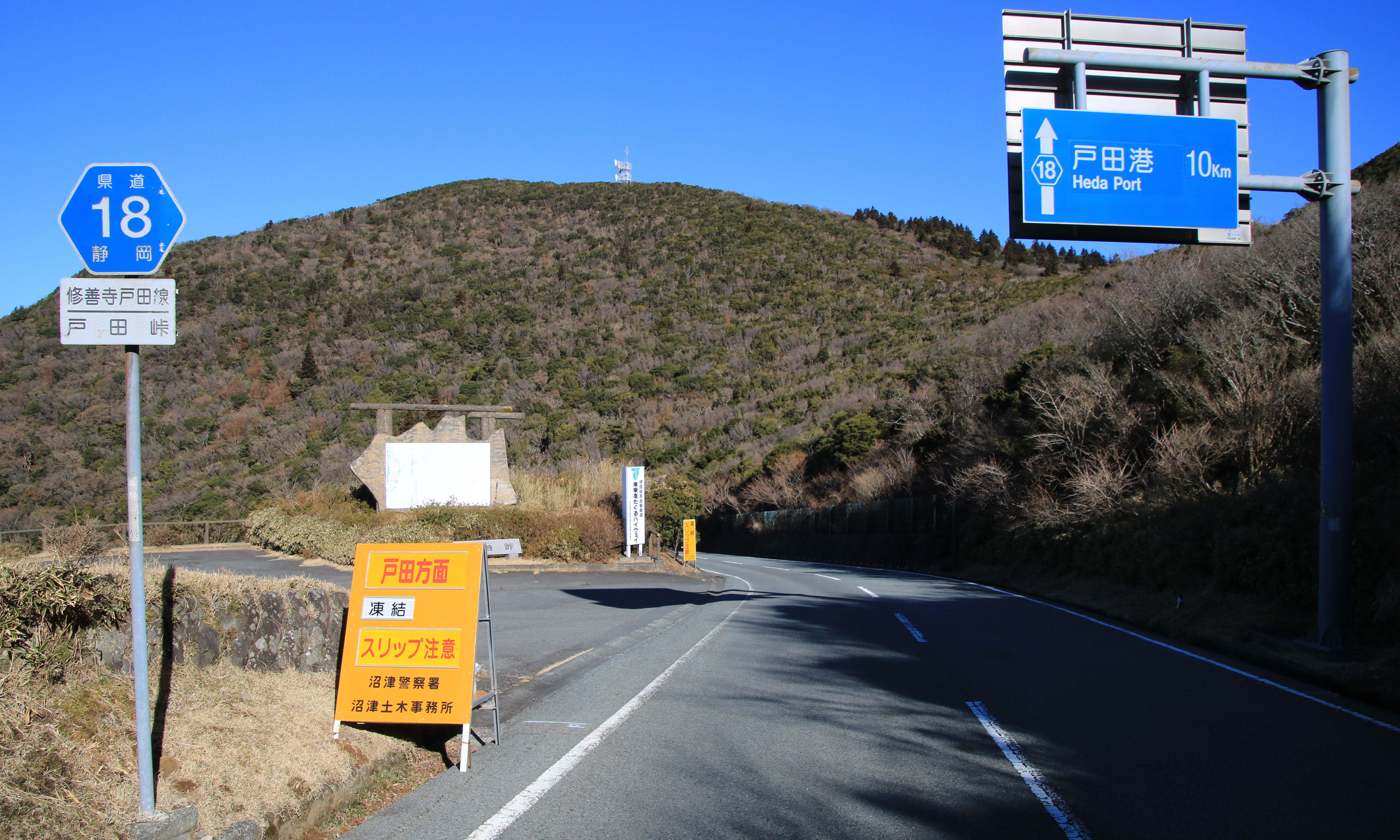 Mount Kinkan seen from Heda Pass of Shizuoka Prefectural Road Route 18 in Numazu, Shizuoka Prefecture, Japan.